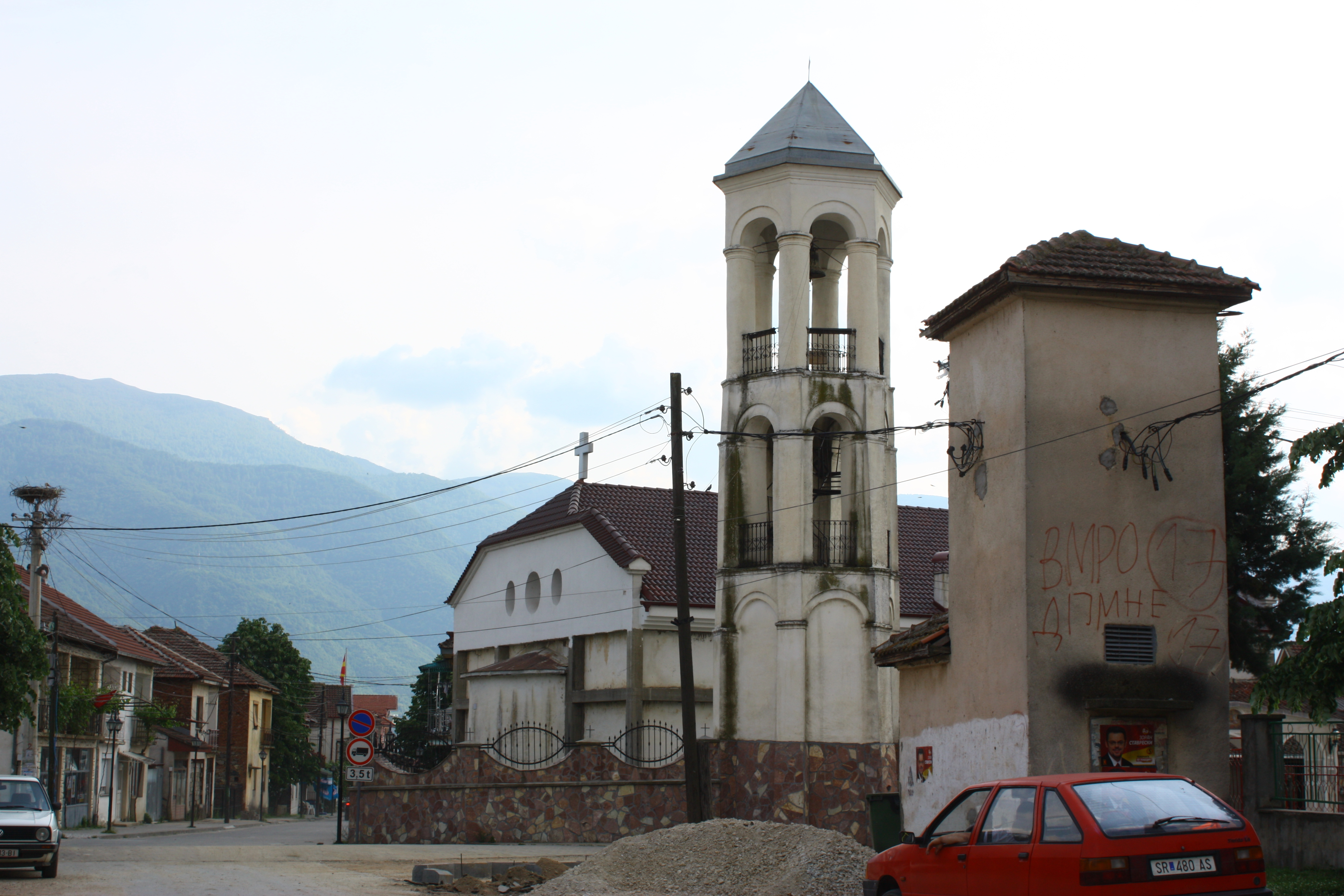 St. George's Church in Novo Selo, near Strumica, Macedonia